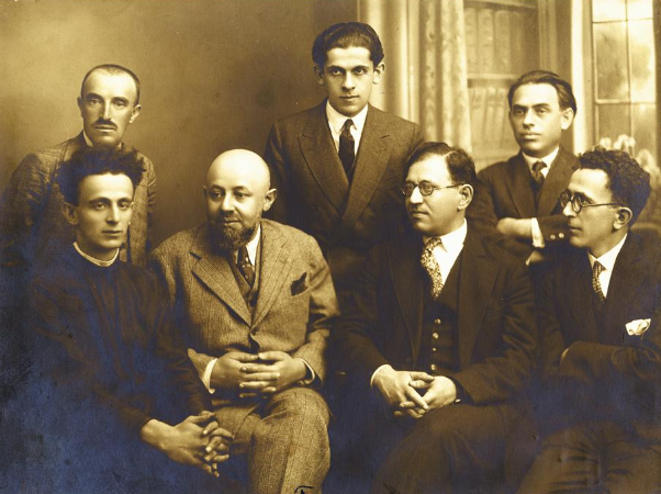 Czernowitz Conference anniversary 1928 (standing, left to right) artist Shloyme Lerner, actor Herts Grosbart, theatrical director Mordkhe Goldenberg, (seated, left to right) writer Itzik Manger, historian Noah Pryłucki, journalist Zalmen Reyzen, and pedagogue and linguist Yisroel Rubin. Photograph by Jacob Brüll. (YIVO)